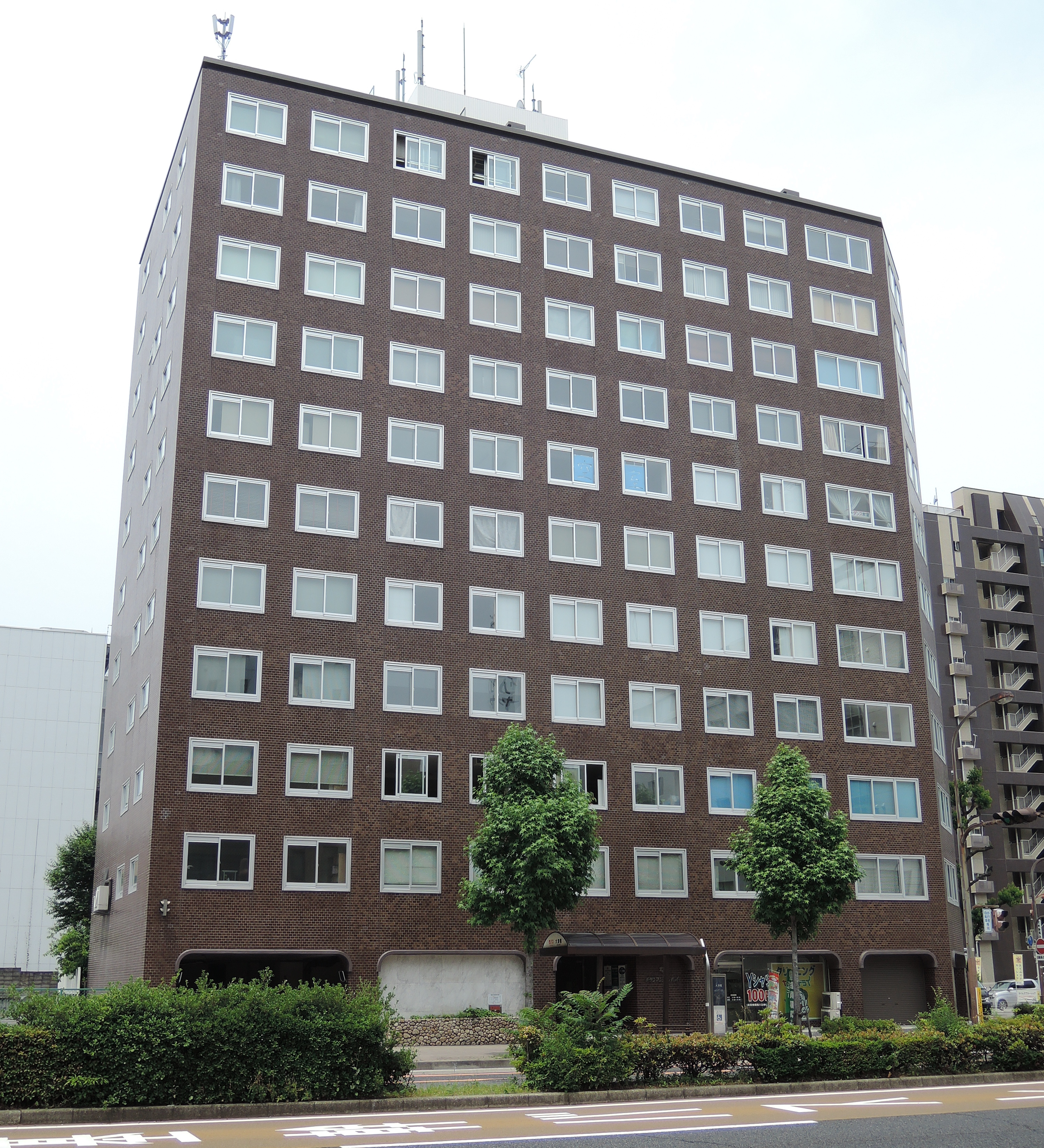 Chisun mansion Marunouchi ,Aichi prefecture,Japan